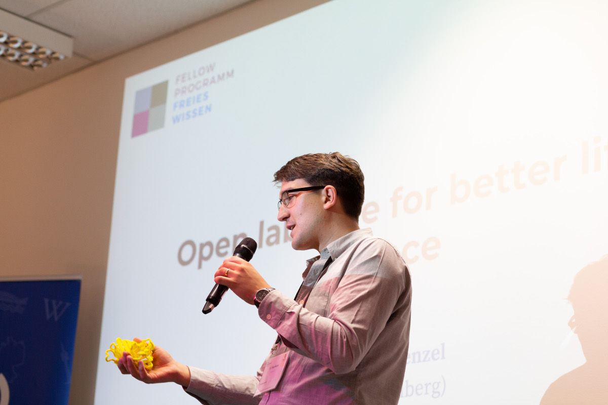 Fellow-Programm Freies Wissen, Auftaktveranstaltung 2018/19 (21.-23.9.18), 1. Veranstaltungstag am 21. September, Berlin, Wikimedia Deutschland. (Foto: Ralf Rebmann, Weitergabe unter CC BY-SA 4.0)